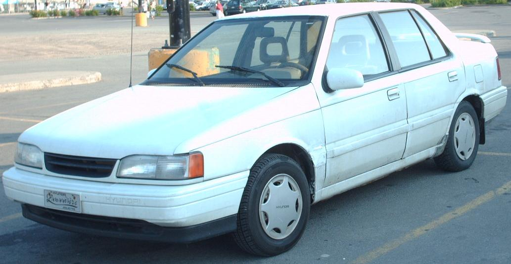 1992 Hyundai Excel photographed in Montreal, Quebec, Canada.